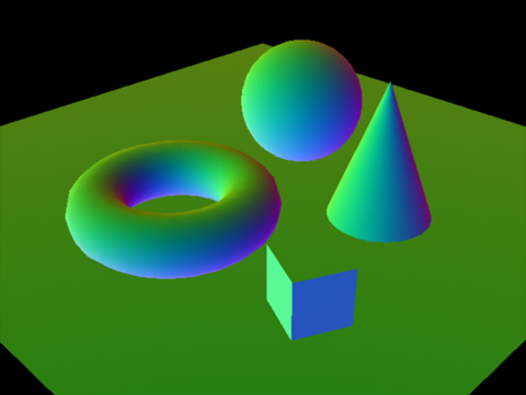 Deferred rendering breakdown : Normal pass